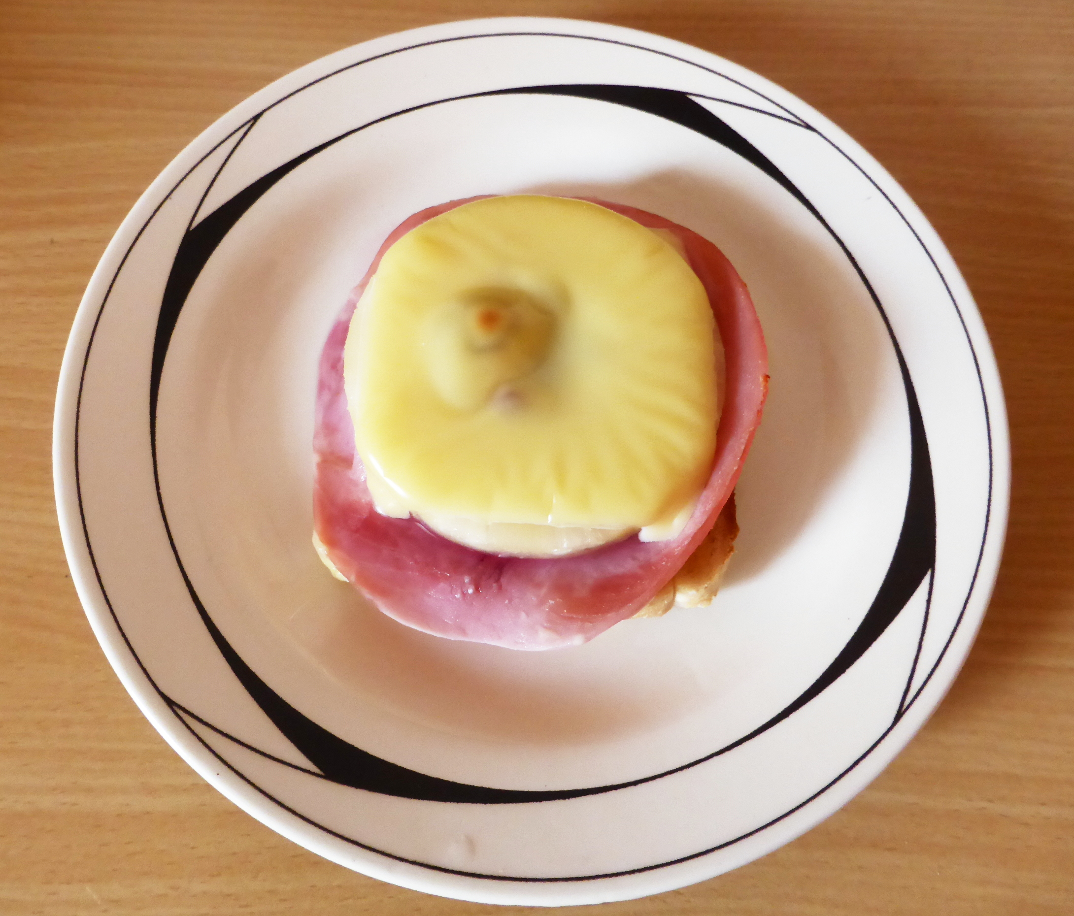 Toast Hawaii